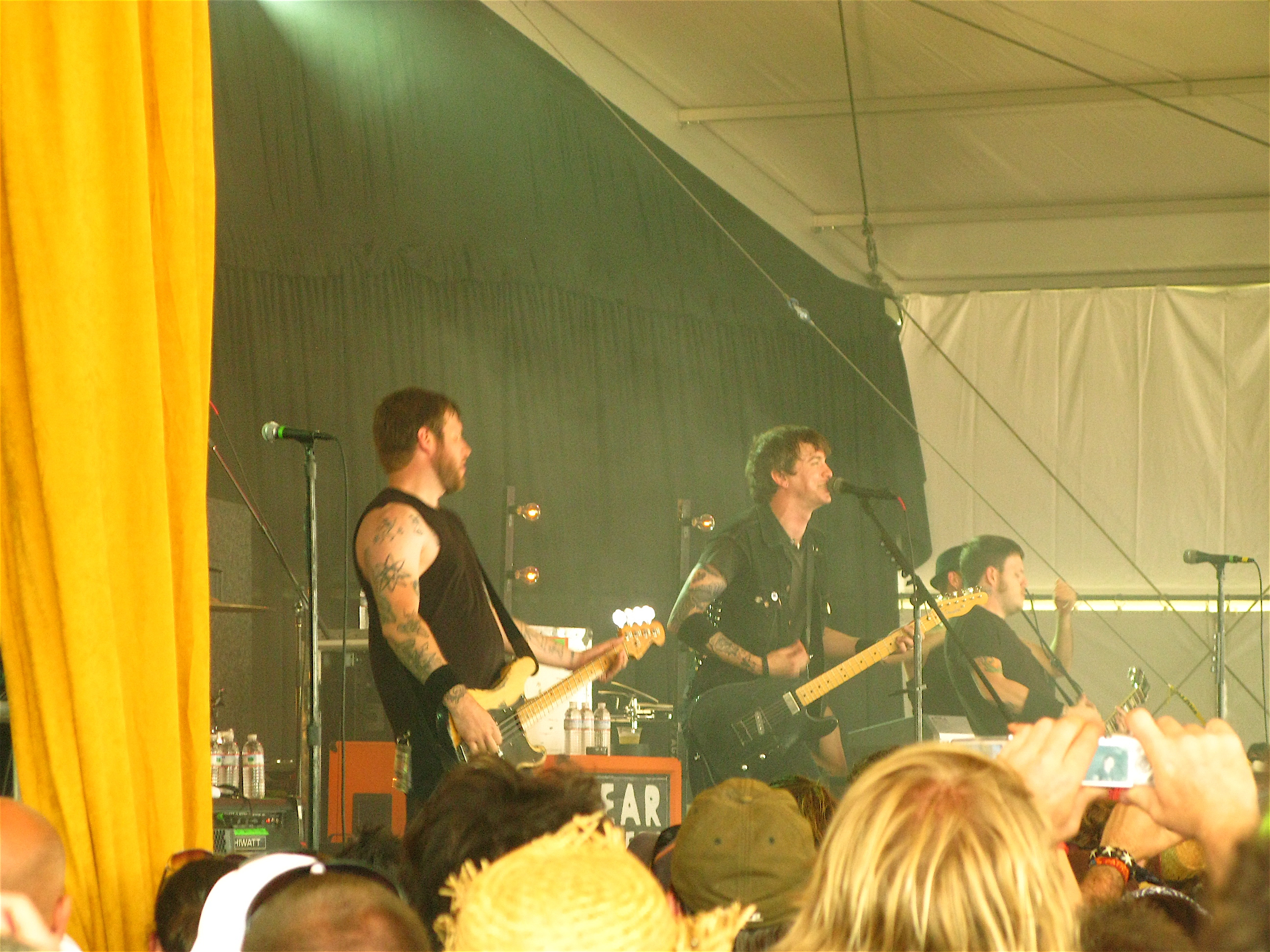 Bonnaroo Music and Arts Festival 2010 Manchester, TN By JASON ANFINSEN